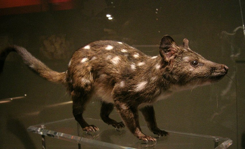 Dasyurus geoffroii, western quoll, Melbourne Museum